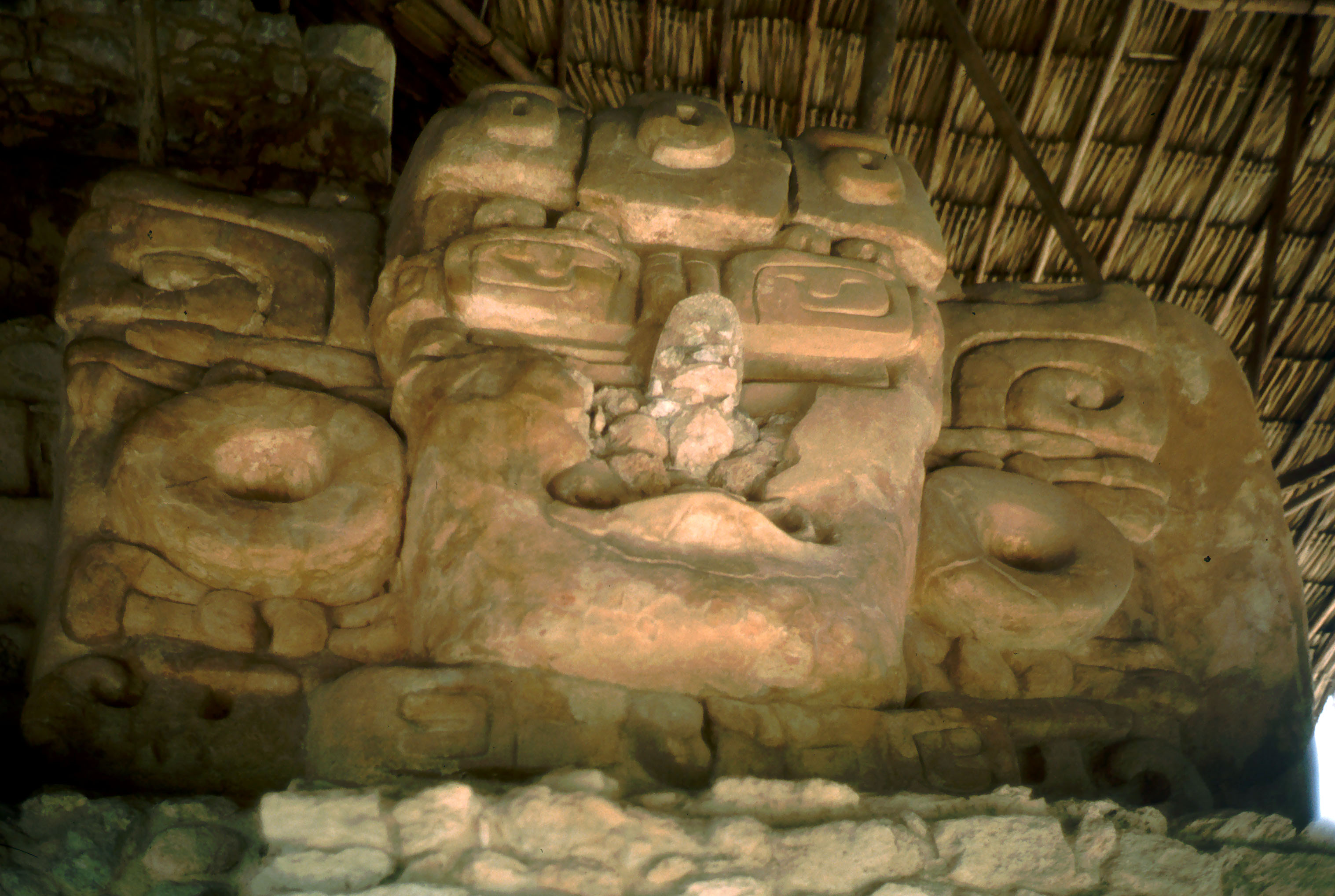 Acanceh,Yucatan, Mexico: giant stucco mask at main pyramid.